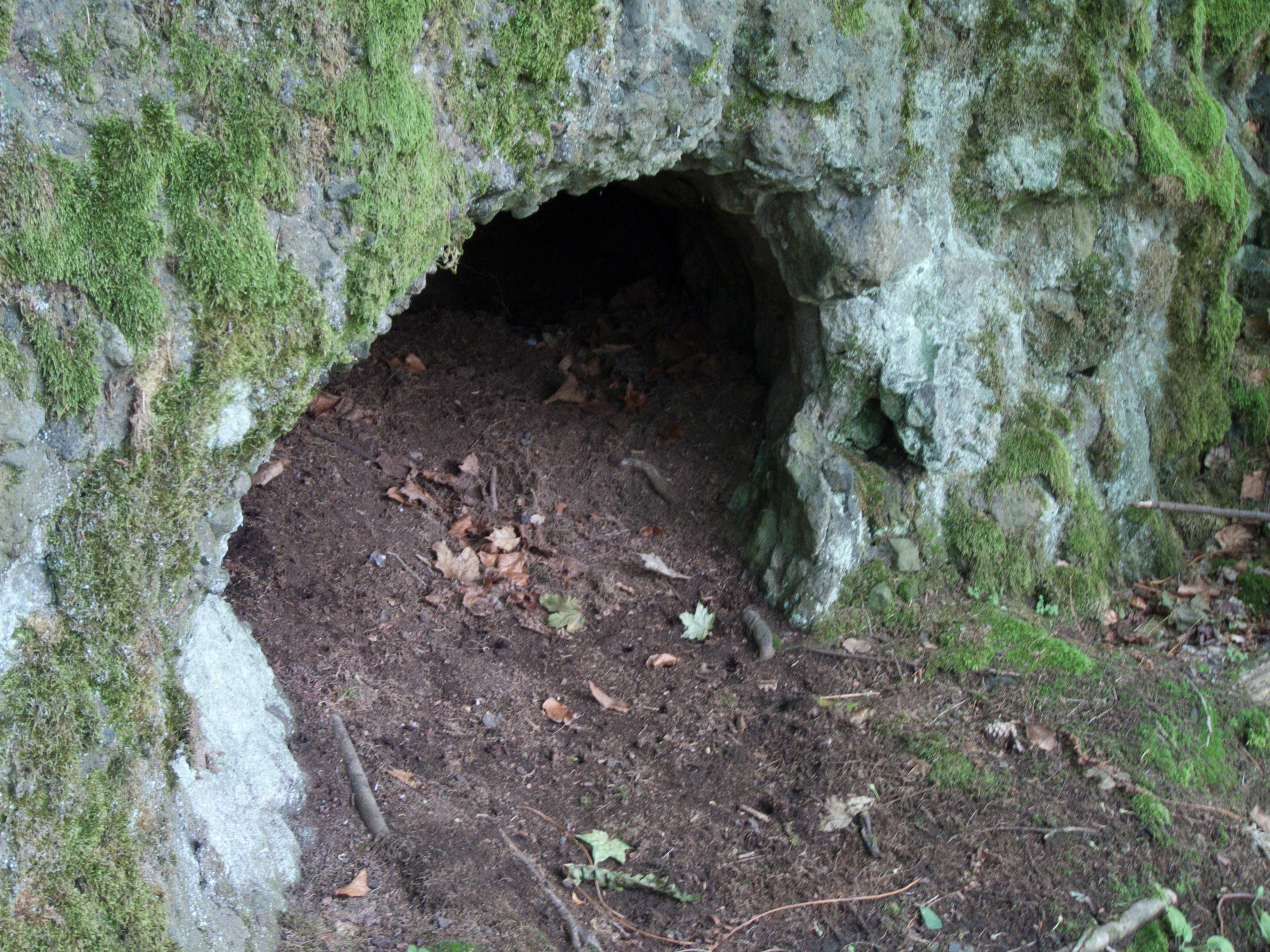 Cavity in Skalky skřítků, a geomorphological formation in Karlovy Vary District, Czech Republic